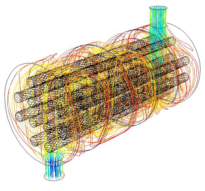 A rendering of a set of fluid flow lines from a simulation of a shell and tube heat exchanger. For computational simplicity, the geometry of this exchanger was set to have very few tubes in the tube bundle and does not have the typical "u" configuration associated with more common shell and tube exchangers. The rendering was self made using the Fluent, Inc. simulation software.